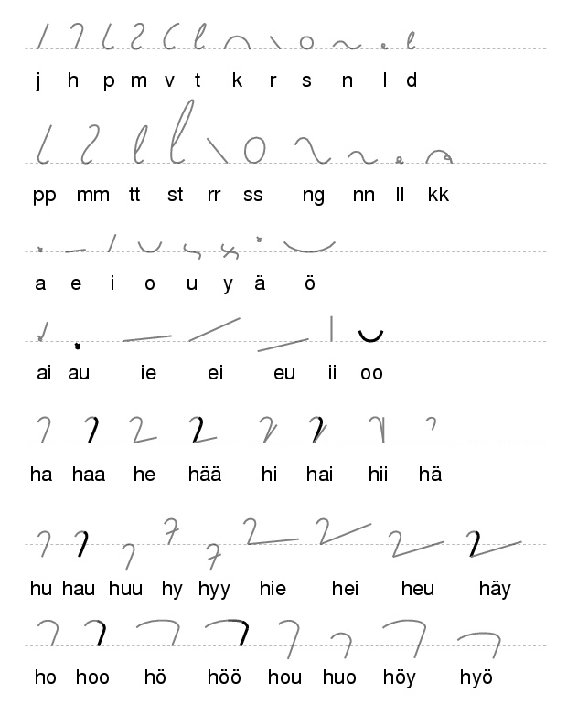 Examples of shorthand characters in Finnish Neovius-Nevanlinna system.